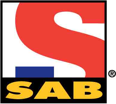 SAB TV Logo